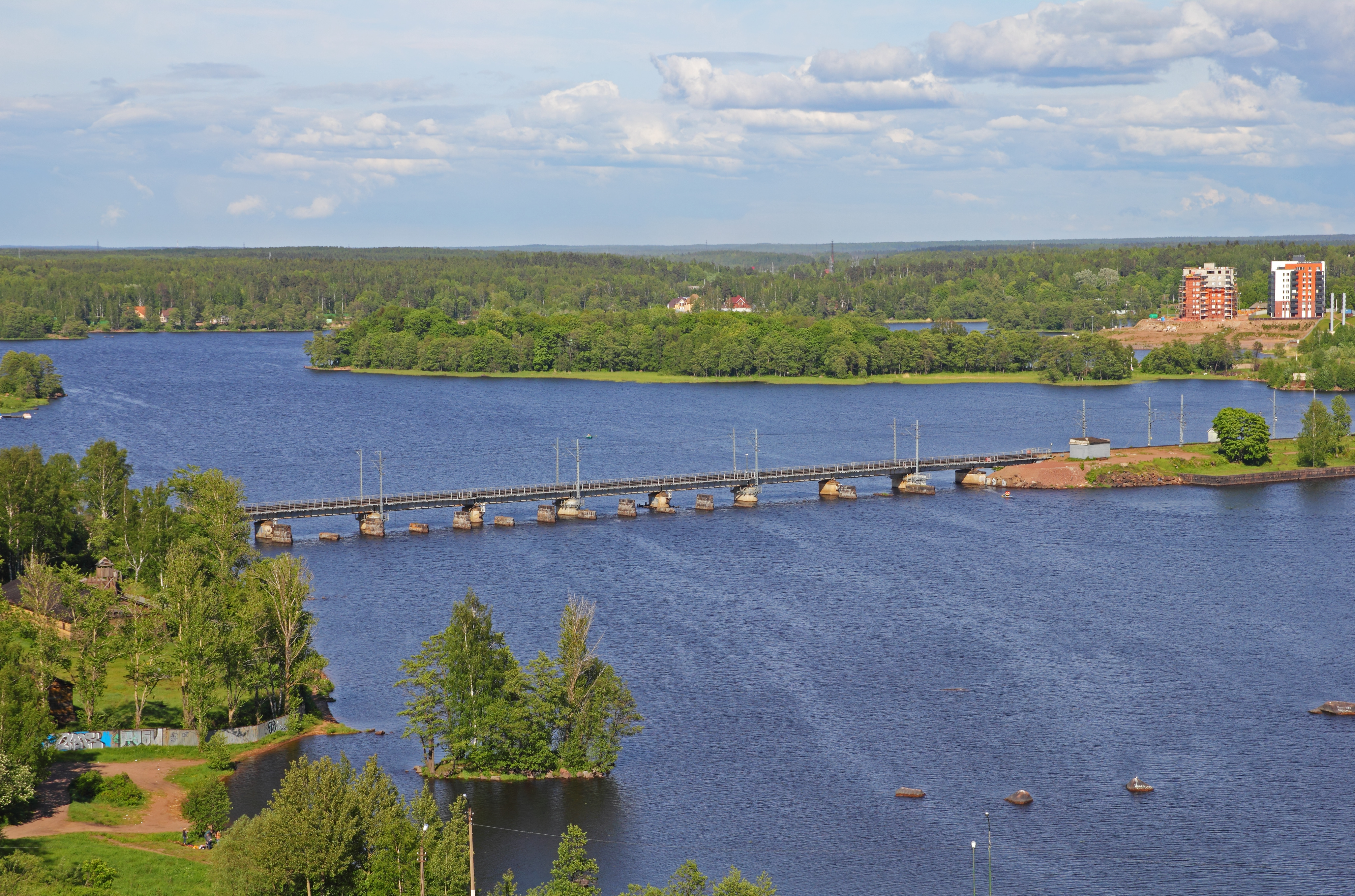 Vyborg (former Viipuri), Leningrad Oblast, Russia. Views from the Olaf Tower of the Vyborg Castle.